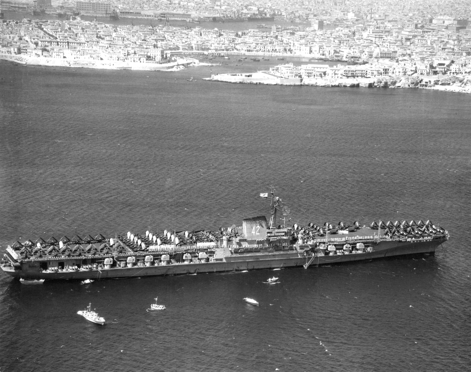 The U.S. Navy aircraft carrier USS Franklin D. Roosevelt (CVB-42) at anchor at Piraeus, Greece, in September 1946, to support the pro-Western government during the Greek Civil War. The FDR, with assigned Carrier Air Group 75 (CVBG-75), was deployed to the Mediterranean Sea from 8 August to 4 October 1946.